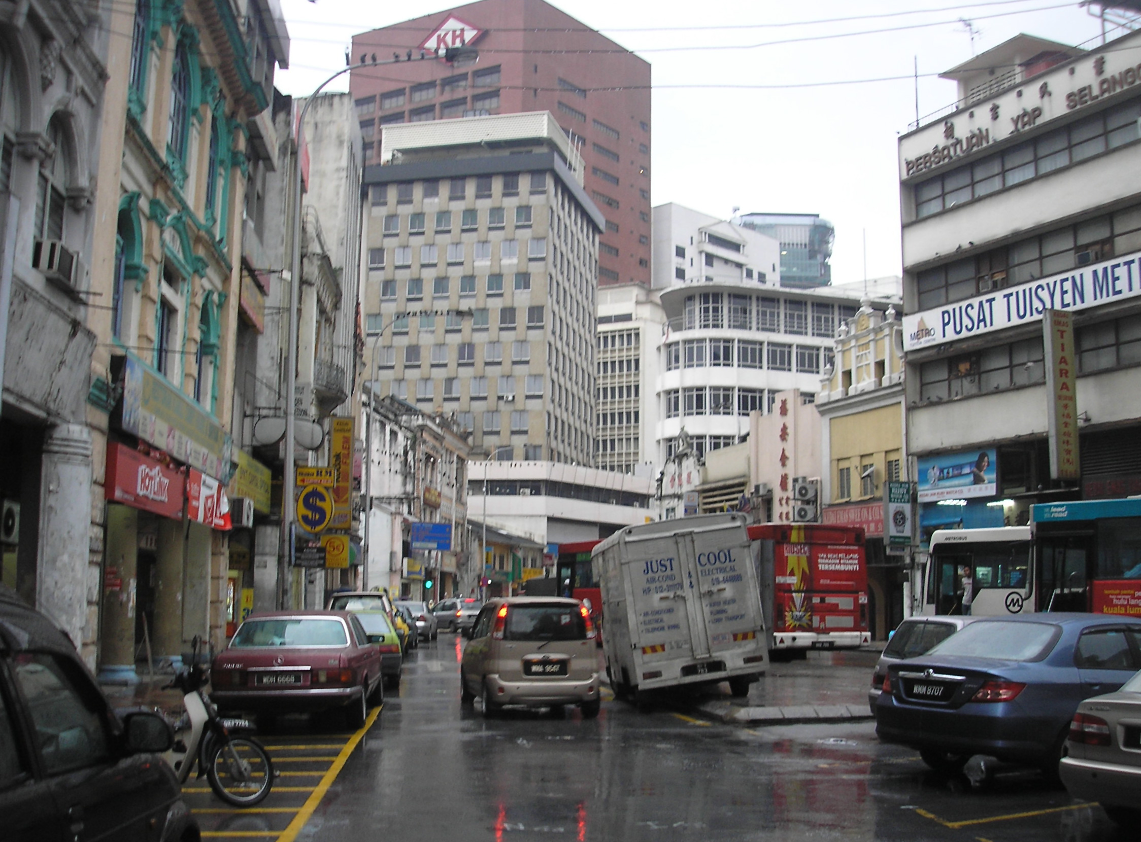 Jalan Tun H S Lee (previously Jalan Bandar and High Street), as seen towards the north between Lebuh Pudu (Pudu Street), and the intersection meeting Lebuh Pasar Besar (previously Market Street) and Jalan Yap Ah Loy (previously Yap Ah Loy Street), in central Kuala Lumpur, Malaysia. This stretch of road is the terminating point of Jalan Petaling's (previously Petaling Street) northern end (right).